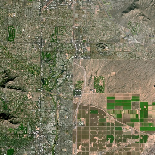 East part of Phoenix (on the left) and Scottsdale, Arizona (on the right) by SPOT Satellite.